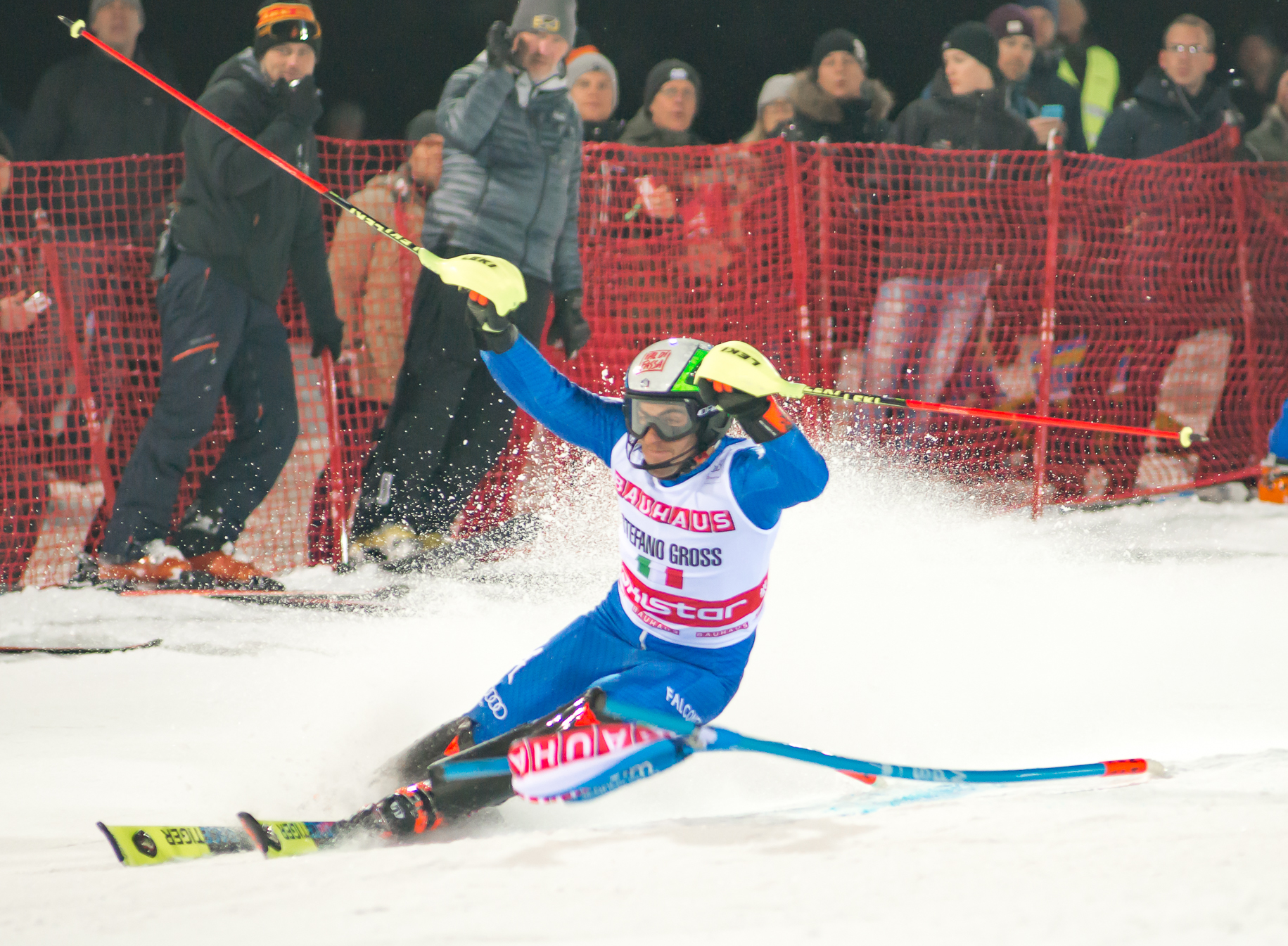 Stefano Gross in parallell slalom Photo by Roland Osbeck